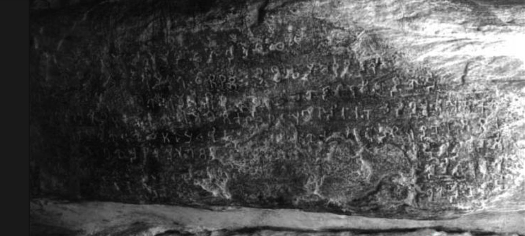 Ashoka Minor Rock Edict of Sasaram